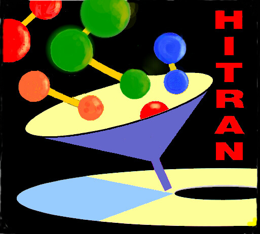 HITRAN logo of molecules (representing the ingredients of HITRAN) going through a funnel (representing the processes we use to assimilate them into HITRAN) and then depositing onto a CD disk.